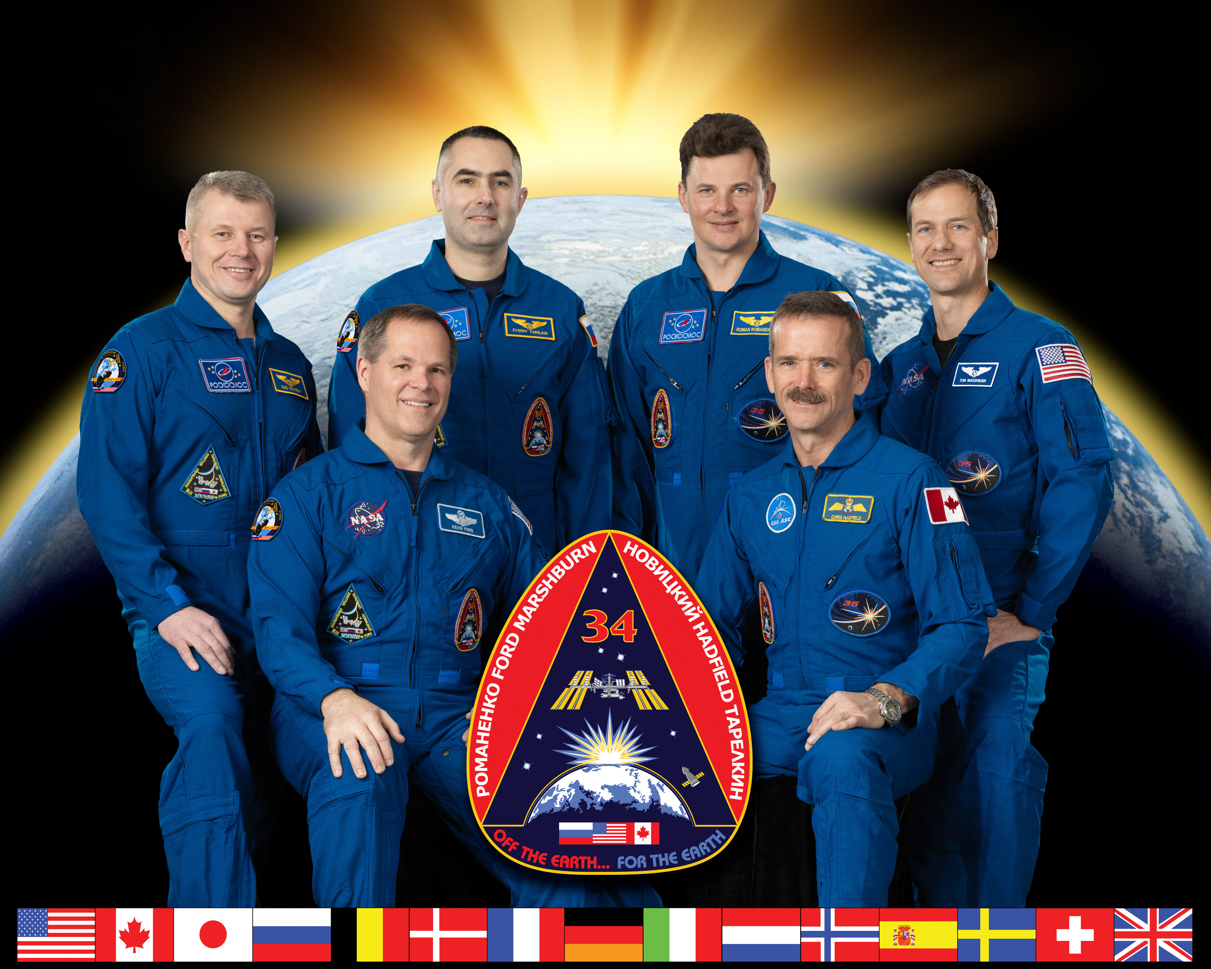 Expedition 34 crew members take a break from training at NASA's Johnson Space Center to pose for a crew portrait. Pictured on the front row are NASA astronaut Kevin Ford (left), commander; and Canadian Space Agency astronaut Chris Hadfield, flight engineer. Pictured from the left (back row) are Russian cosmonauts Oleg Novitskiy, Evgeny Tarelkin, Roman Romanenko and NASA astronaut Tom Marshburn, all flight engineers.